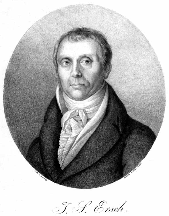 Johann Samuel Ersch (1766-1828), lexiograph